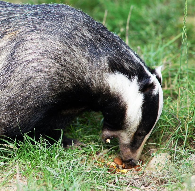 Seen at the British Wildlife Centre, Newchapel, Surrey.